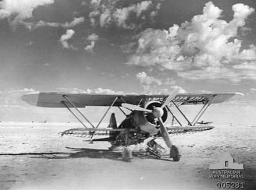 An abandoned Italian Fiat C.R. 42 Falco fighter on an airfield between Capuzzo and Bardia in Libya, 1940. The van belongs to the Australian Photographic Unit.